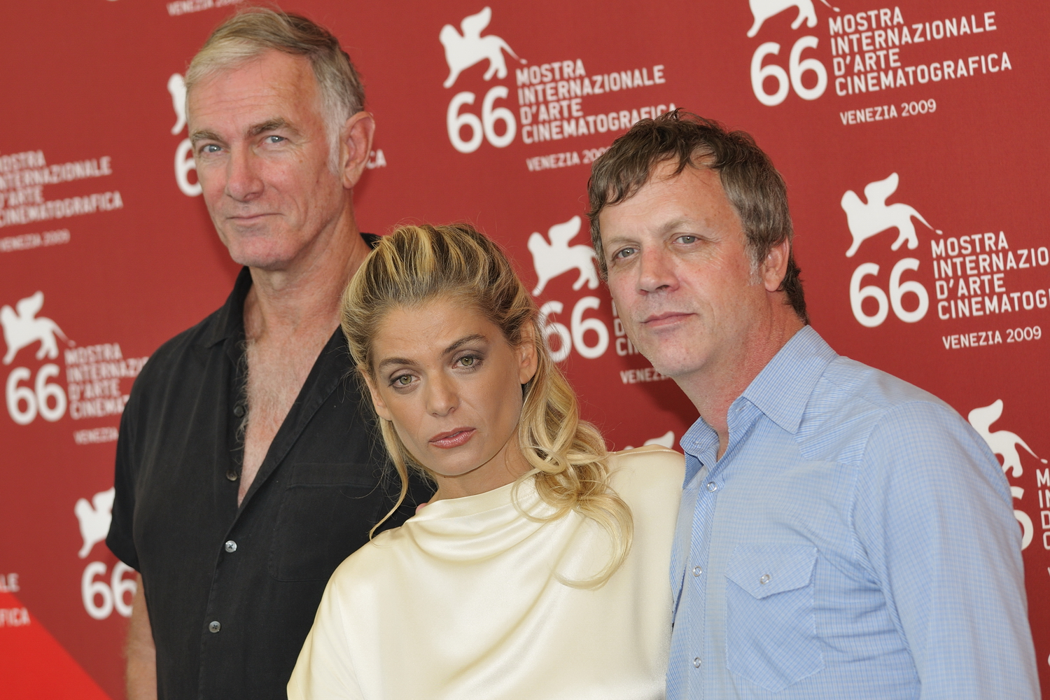 66ème Festival du Cinéma de Venise (Mostra), 2ème jour (03/09/2009) Photocall with John Sayles, Angela Ismailos and Todd Haynes (left to right)